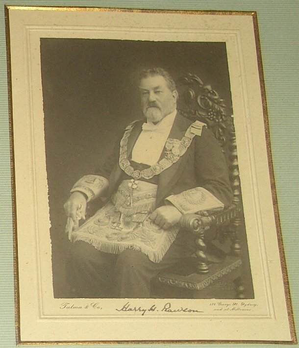 Photograph with signature of Admiral Sir Harry Rawson as Grand Master of the United Grand Lodge of New South Wales (as it was at that time.) The photograph is accompanied with a letter that dates the photograph to earlier than 9 November 1908 (date of letter). The letter and photograph hang in a frame at the Queanbeyan Masonic Centre.